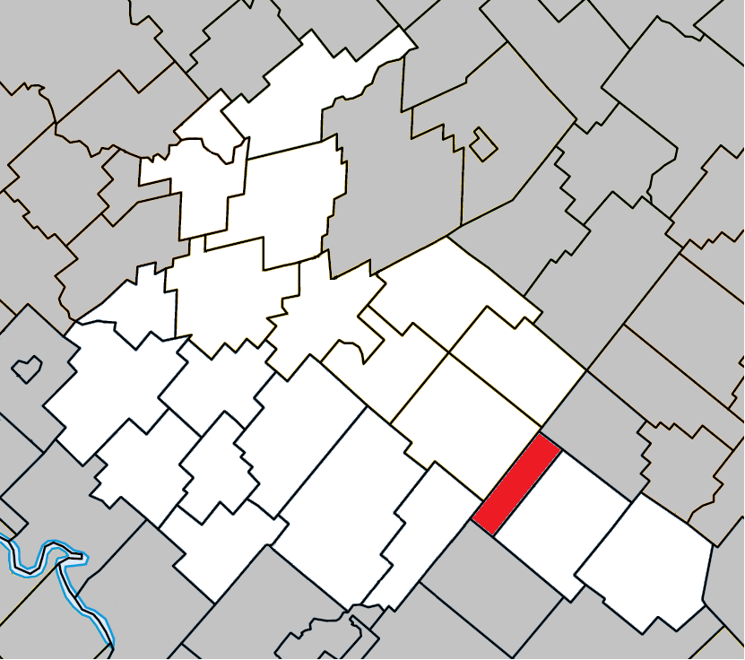 Location of Notre-Dame-de-Ham, Quebec within Arthabaska Regional County Municipality.